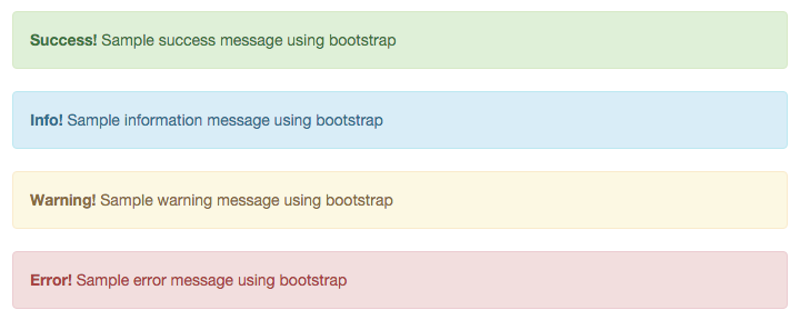 Sample Alert Messages in Bootstrap